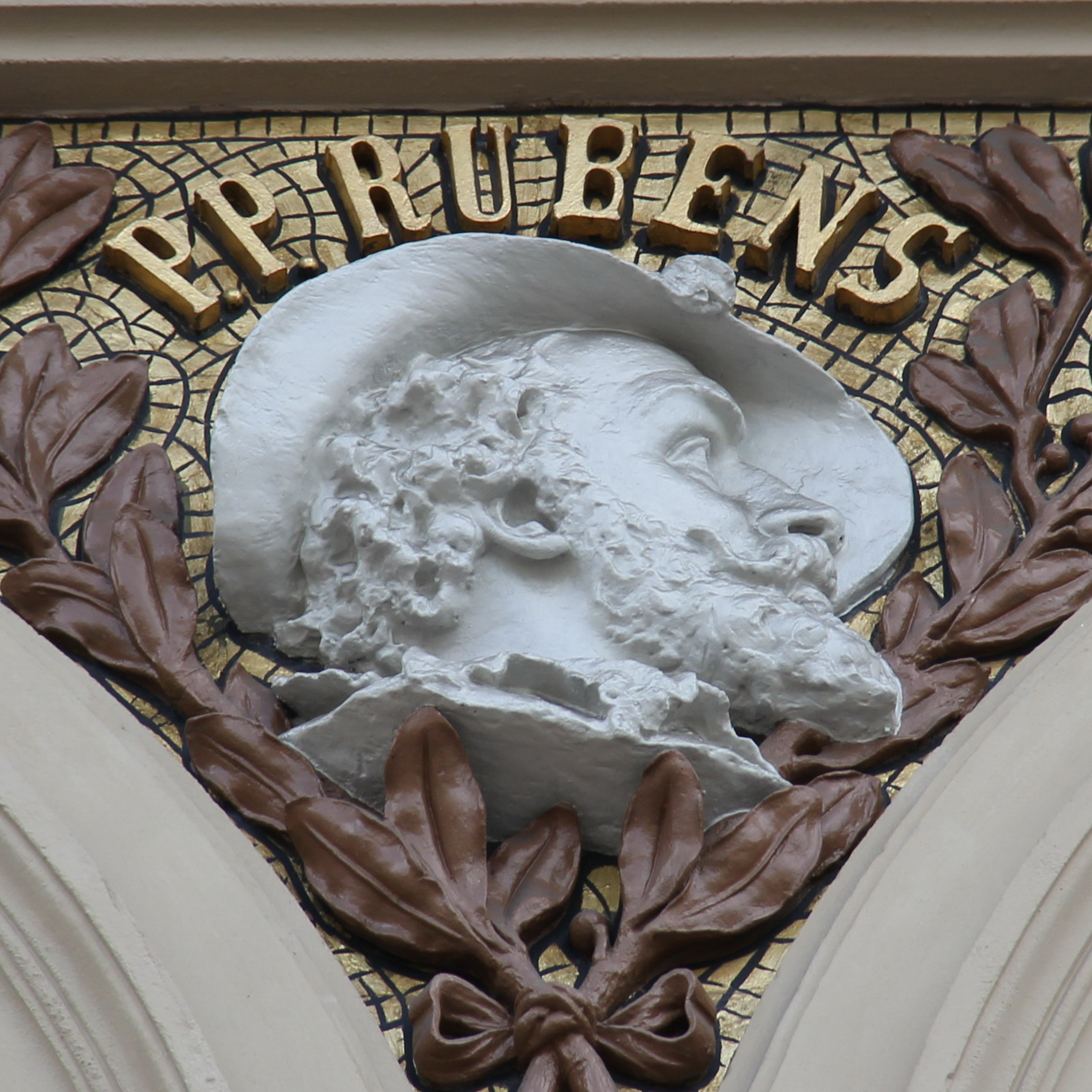 Medallion portrait sculptures on the main facade of the Ateneum Art Museum, Helsinki, Finland. Portrait of flemish painter Peter Paul Rubens by Ville Vallgren, unveiled in 1887.